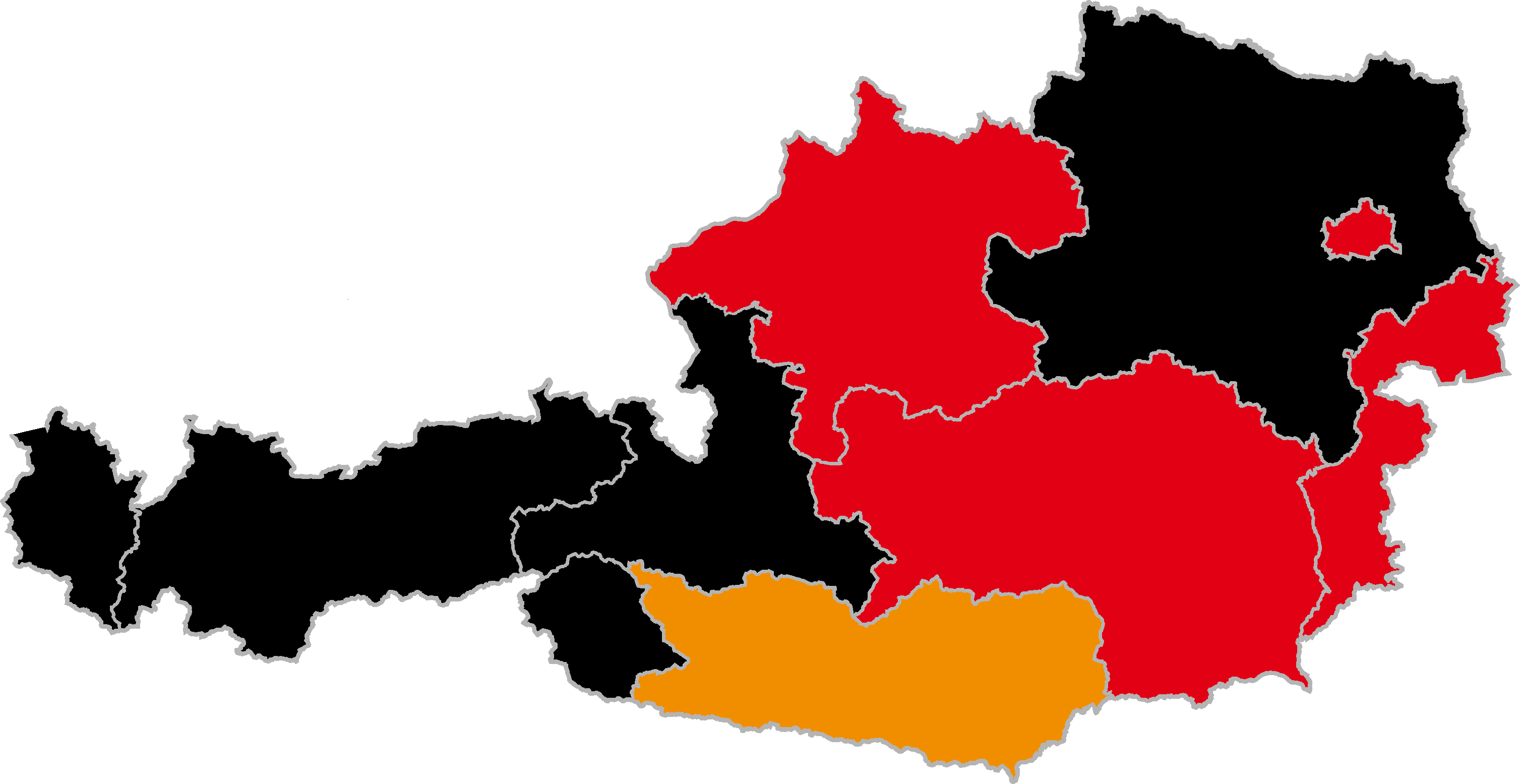 Austrian legislative election 2008 result by state